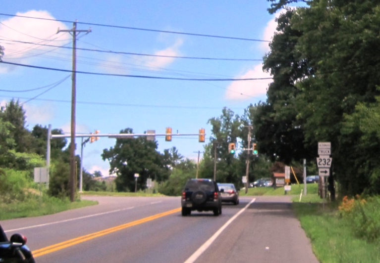 Photo showing the southern terminus of Alternate Truck Pennsylvania Route 232 at Second Street Pike (PA 232) and Swamp Road in Wrightstown Township, Bucks County, Pennsylvania. Resized from original size and color enhanced to reduce blurriness as much as possible.